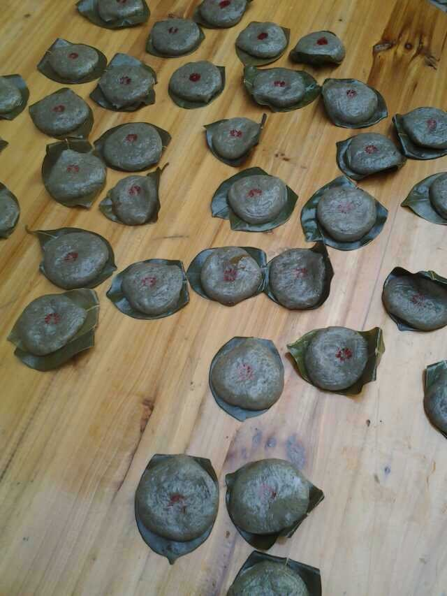 wormwood 籺，Maoming snack